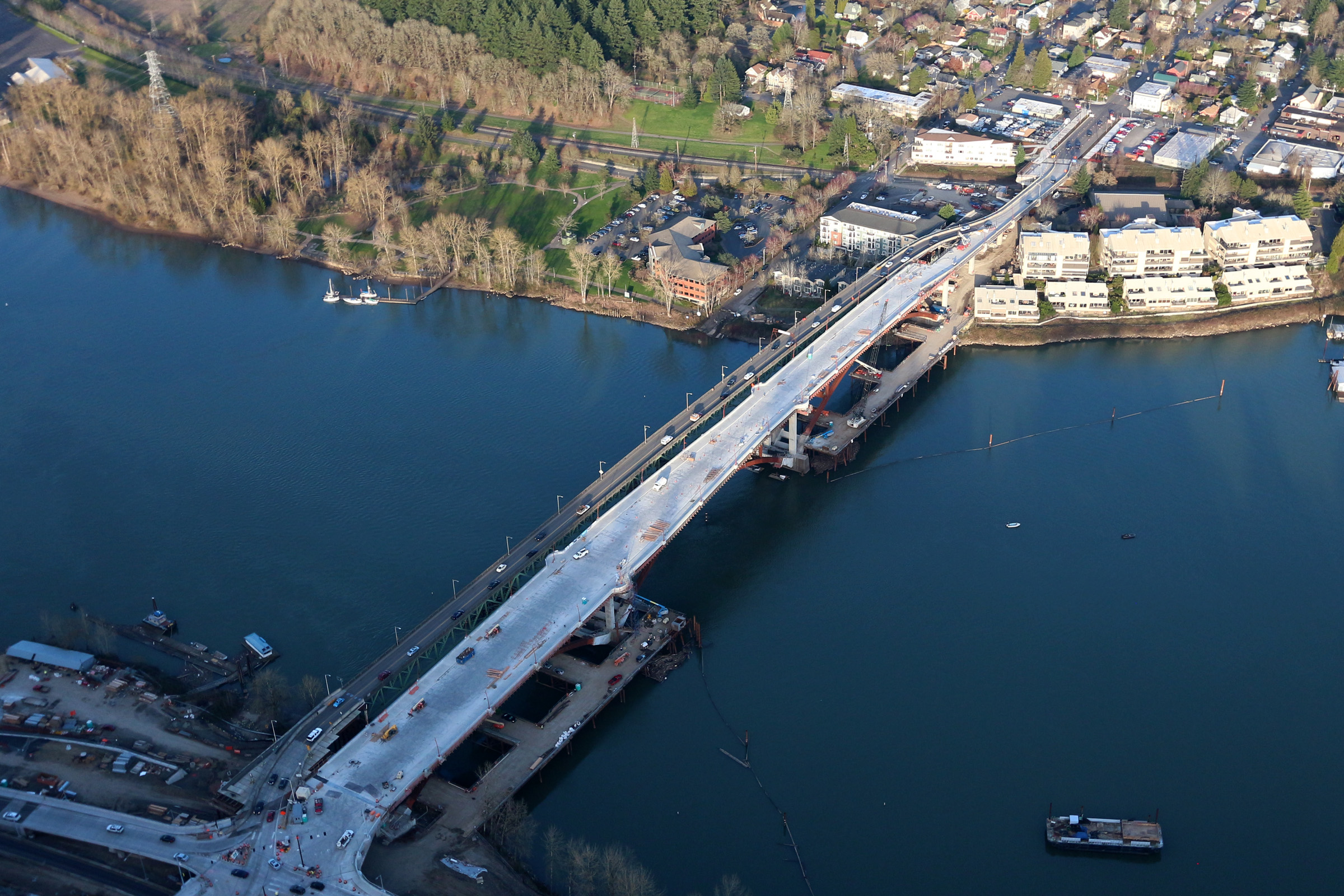 Nearing the end of construction on the new Sellwood Bridge